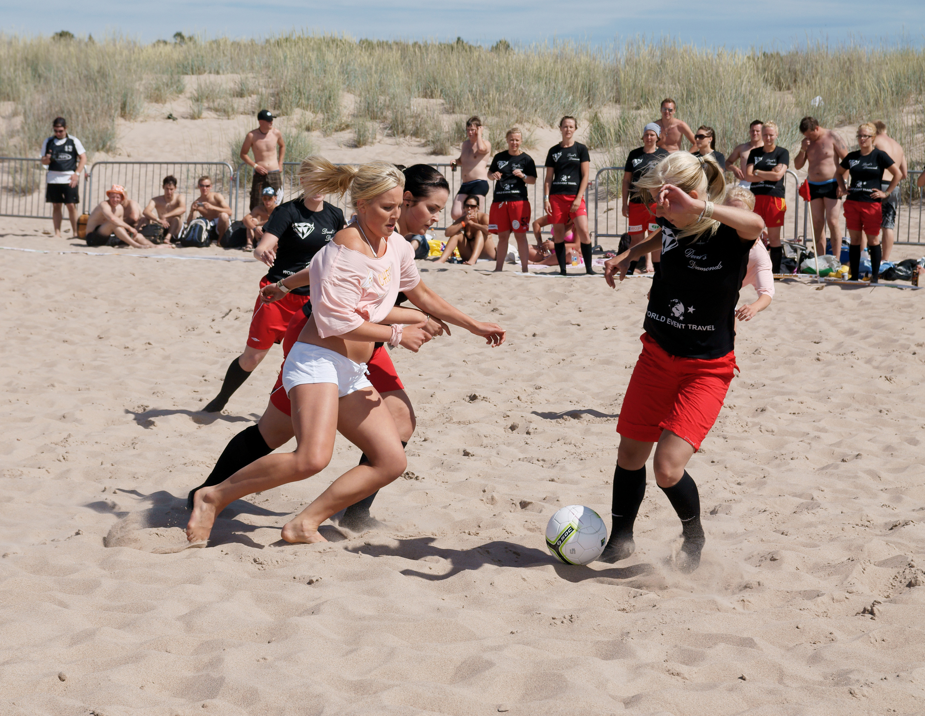 Women's beach football in Yyteri Beachfutis.